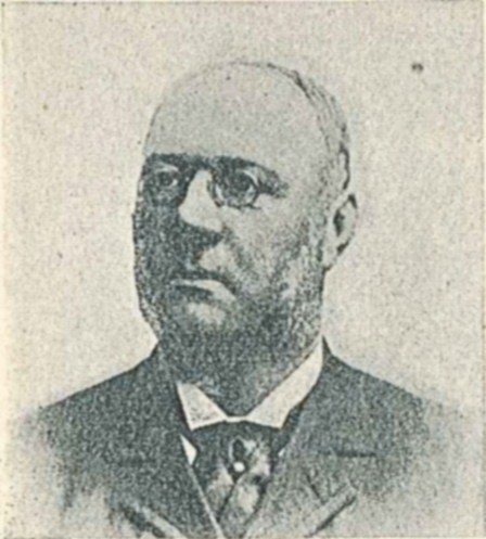 Swedish politician Johan Edvard Behmer. From page 7 of an album featuring portraits of all the members of the second chamber of the Swedish parliament (Sveriges riksdag) elected in 1897.